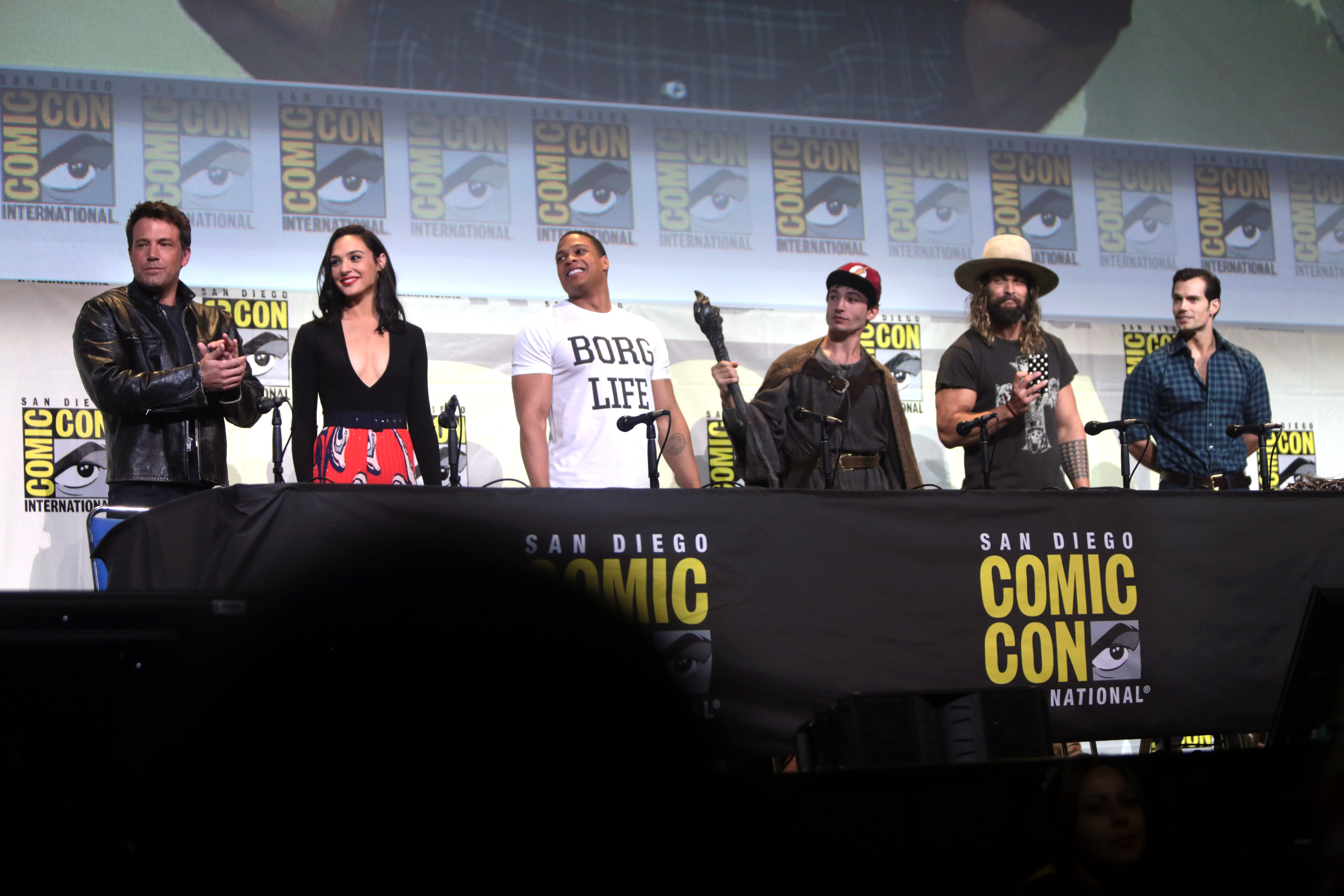 Ben Affleck, Gal Gadot, Ray Fisher, Ezra Miller, Jason Momoa and Henry Cavill speaking at the 2016 San Diego Comic Con International, for "Justice League", at the San Diego Convention Center in San Diego, California.